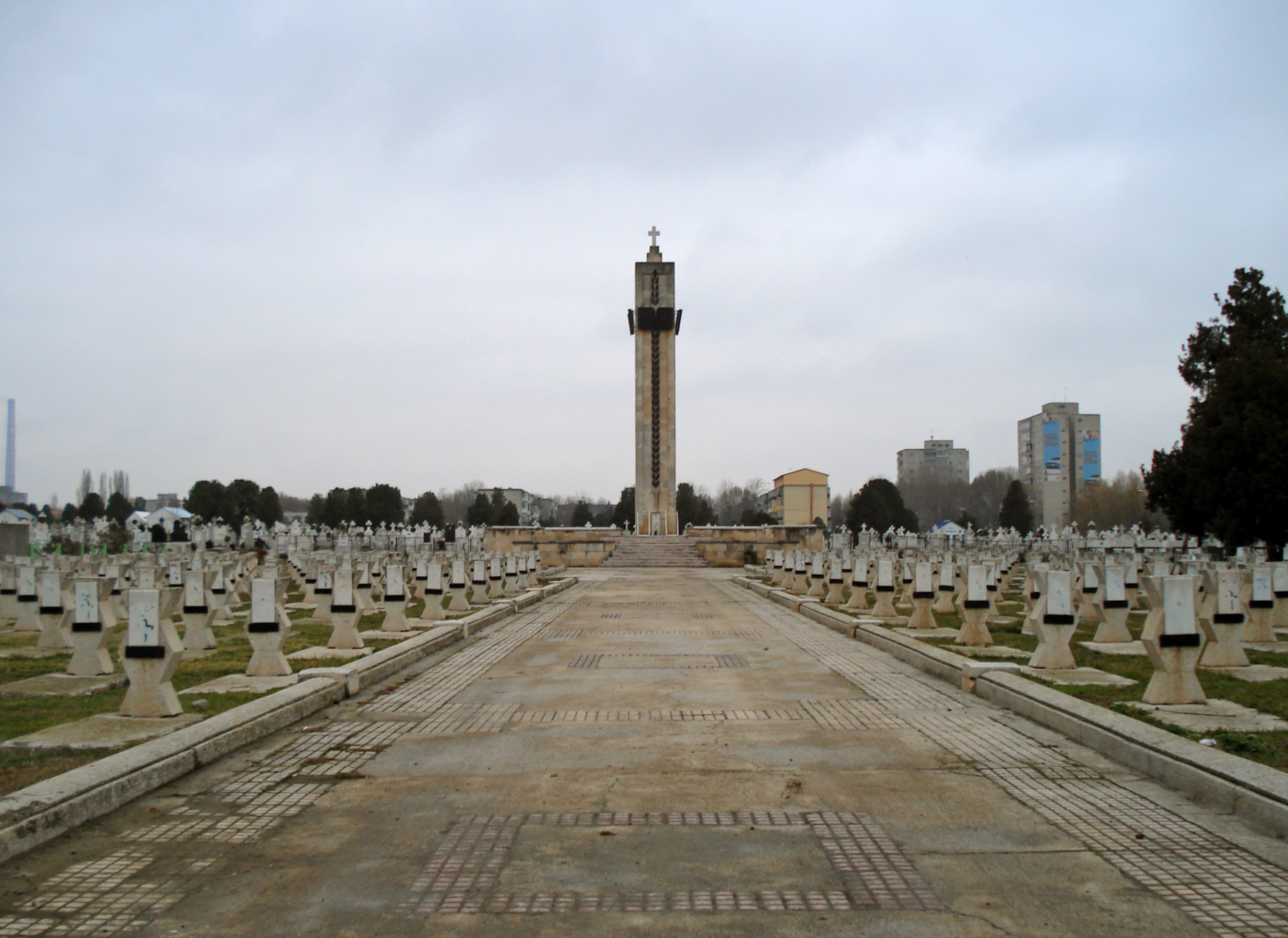 Romanian Military Cemetery in the Central Cemetery, Constanţa, Romania. Monument to Romanian soldiers fallen in World War II. Inscription lost as of February 2008. It originally read: Glory to the Romanian soldiers fallen in the fight for the defense of the independence